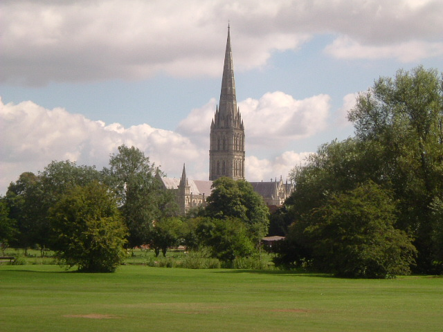 Salisbury Cathedral as viewed from the Town Path